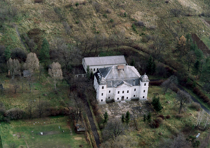 Palace - Sáta - Hungary - Europe (Fáy Mansion)